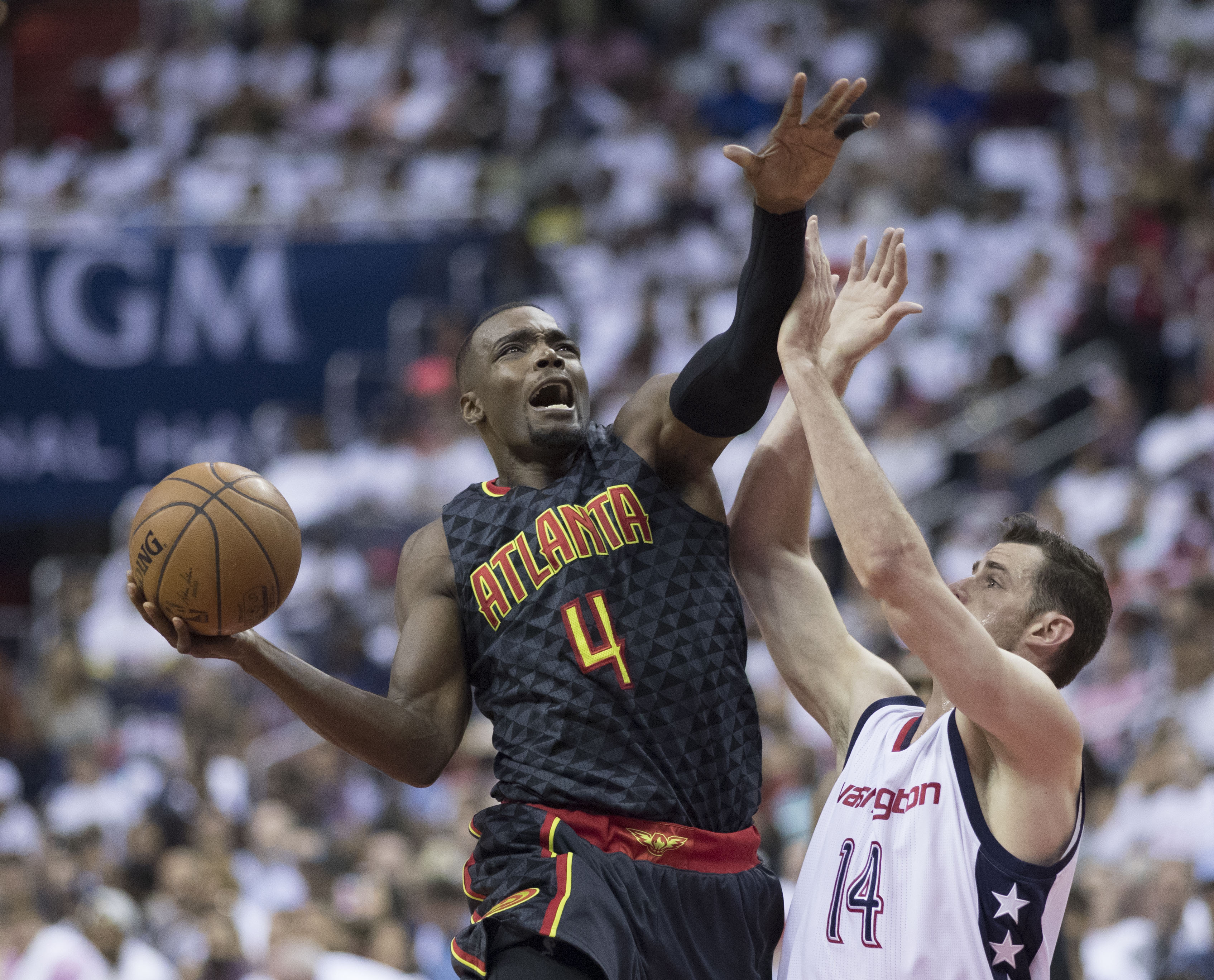 Hawks at Wizards Round 1 Playoffs 4/16/17